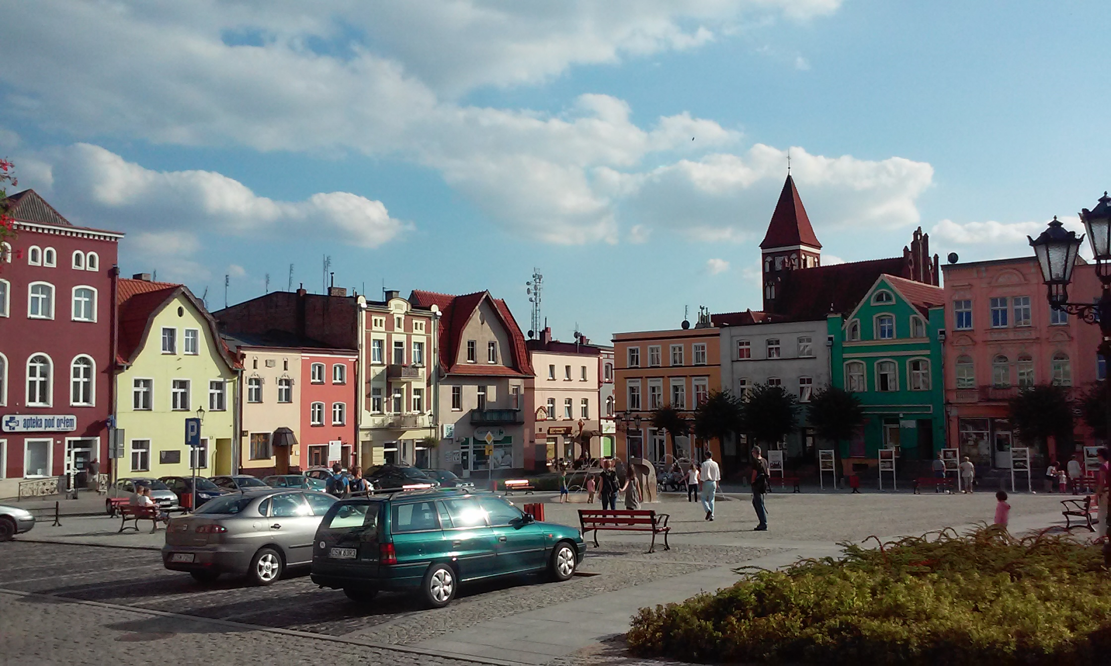 Nowe, Kuyavian-Pomeranian Voivodeship, Poland